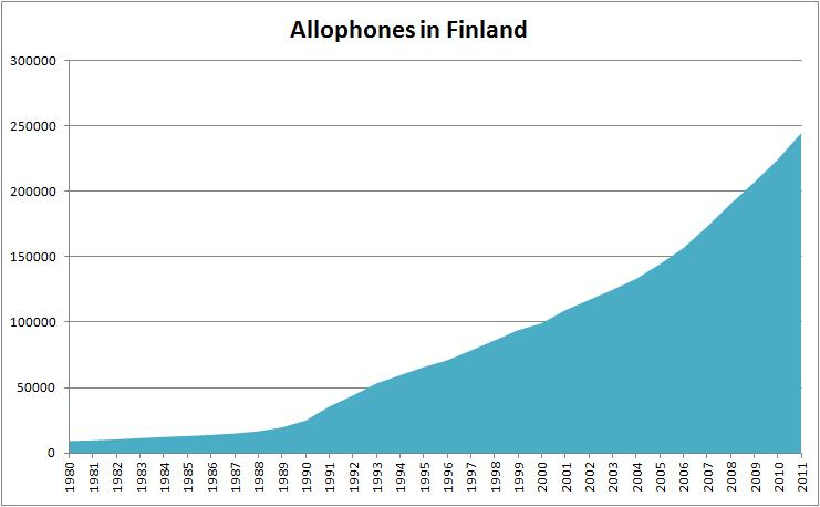 Allophones, i.e. residens with another native language than Finnish, Swedish or Sami, in Finland, 1980-2011, according to Statistics Finland